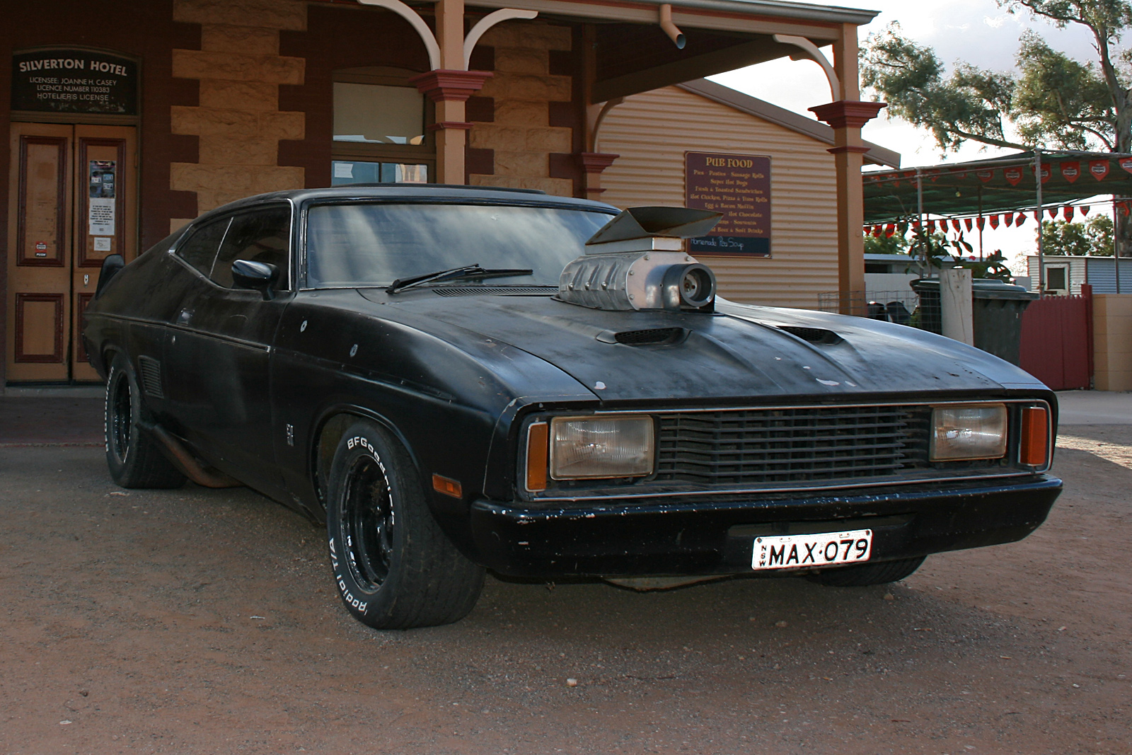 A replica of the Mad Max (Road Warrior) pursuit vehicle outside the Silverton Hotel, Silverton, NSW. Mad Max was filmed on location in the area around Silverton.